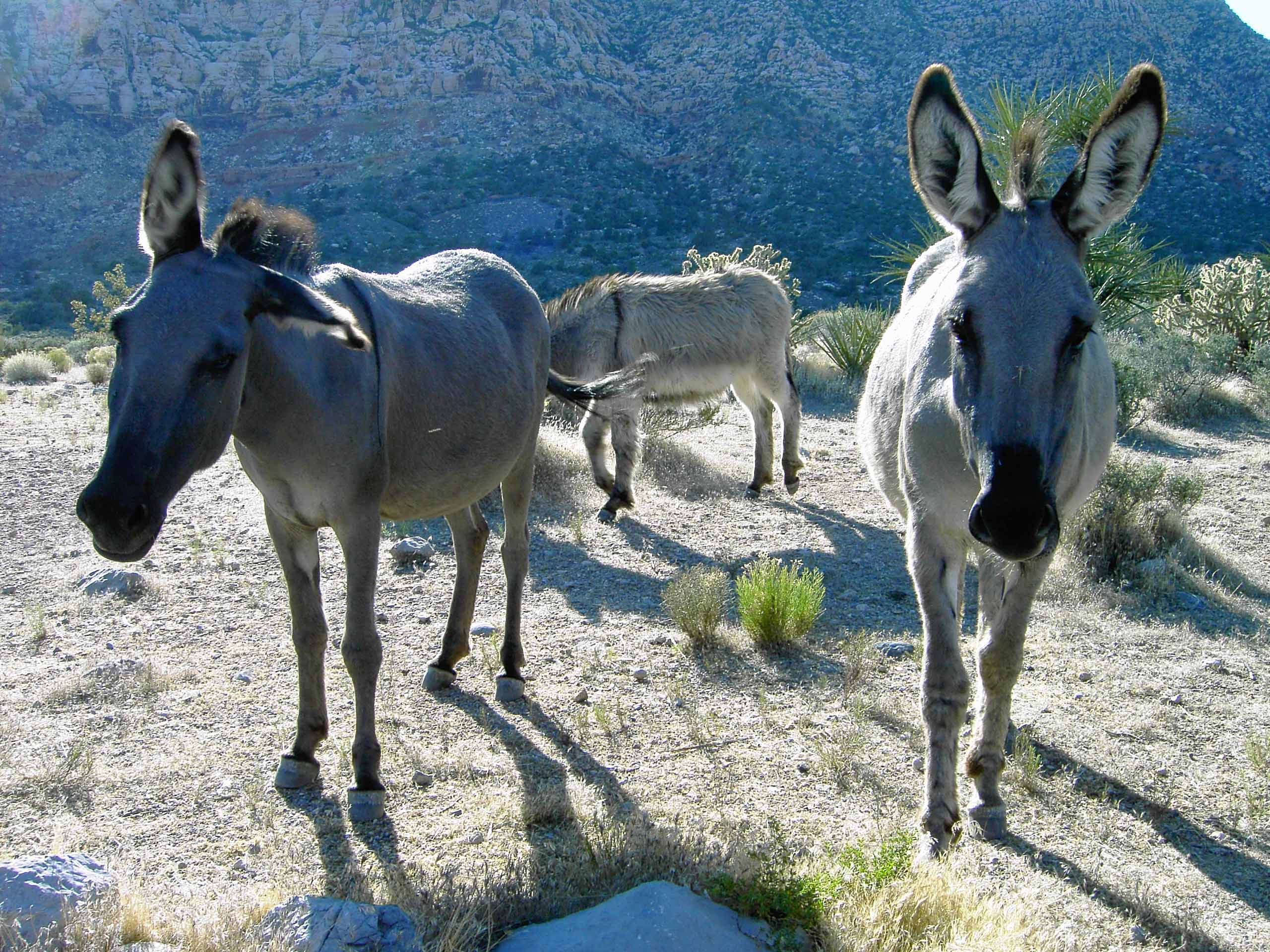 feral burros at the Red Rock Canyon National Conservation Area.